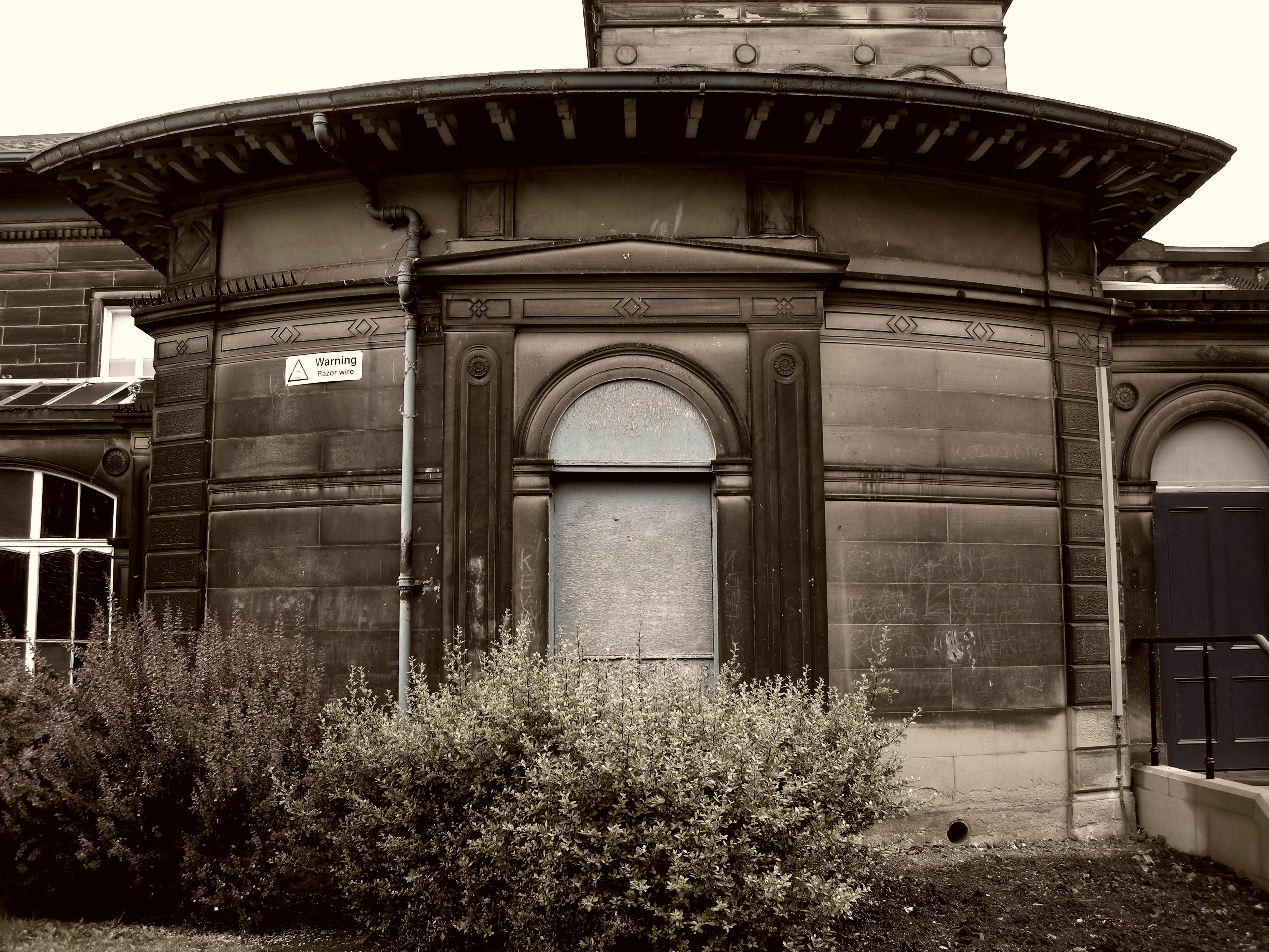 Bankfield Museum, Halifax, West Yorkshire, England. 53.43'.57".N; 1.51'.48".W.